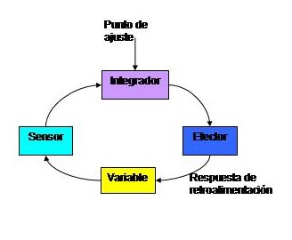 Elements of a feedback loop